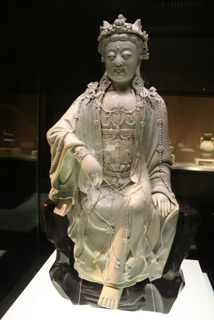 Chinese porcelain statue of the Buddha, Guan Yin, from the Yuan Dynasty (1271-1368 AD) of medieval China. According to a CCTV documentary, it was produced at Jingdezhen, Jiangxi province, a site that was famous for its white porcelains known as Qingbai wares, with a pale jade hue.